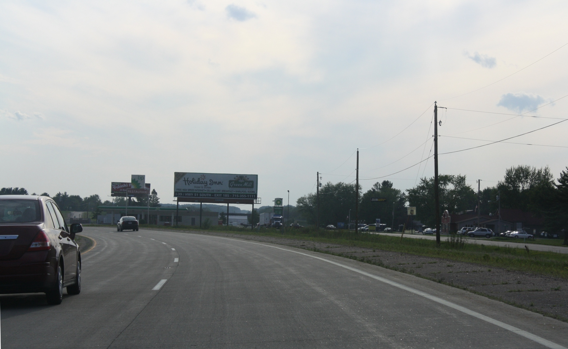 Looking west at Hatley, Wisconsin along Wisconsin Highway 29.